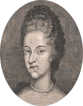 Magdalena Claudia von Pfalz-Birkenfeld (1668-1704) child of Christian II of Palatinate-Birkenfeld-Bischweiler